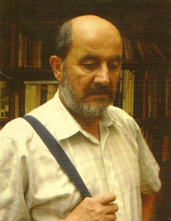 Ukrainian artist. A member of National Union of Artists of Ukraine (1988). Honoured Art Worker of Ukraine (1998). Scanned material that does not stamped sign of copyright ®